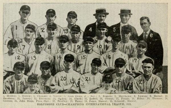 The 1921 Baltimore Orioles, a minor league baseball team from Baltimore, Maryland